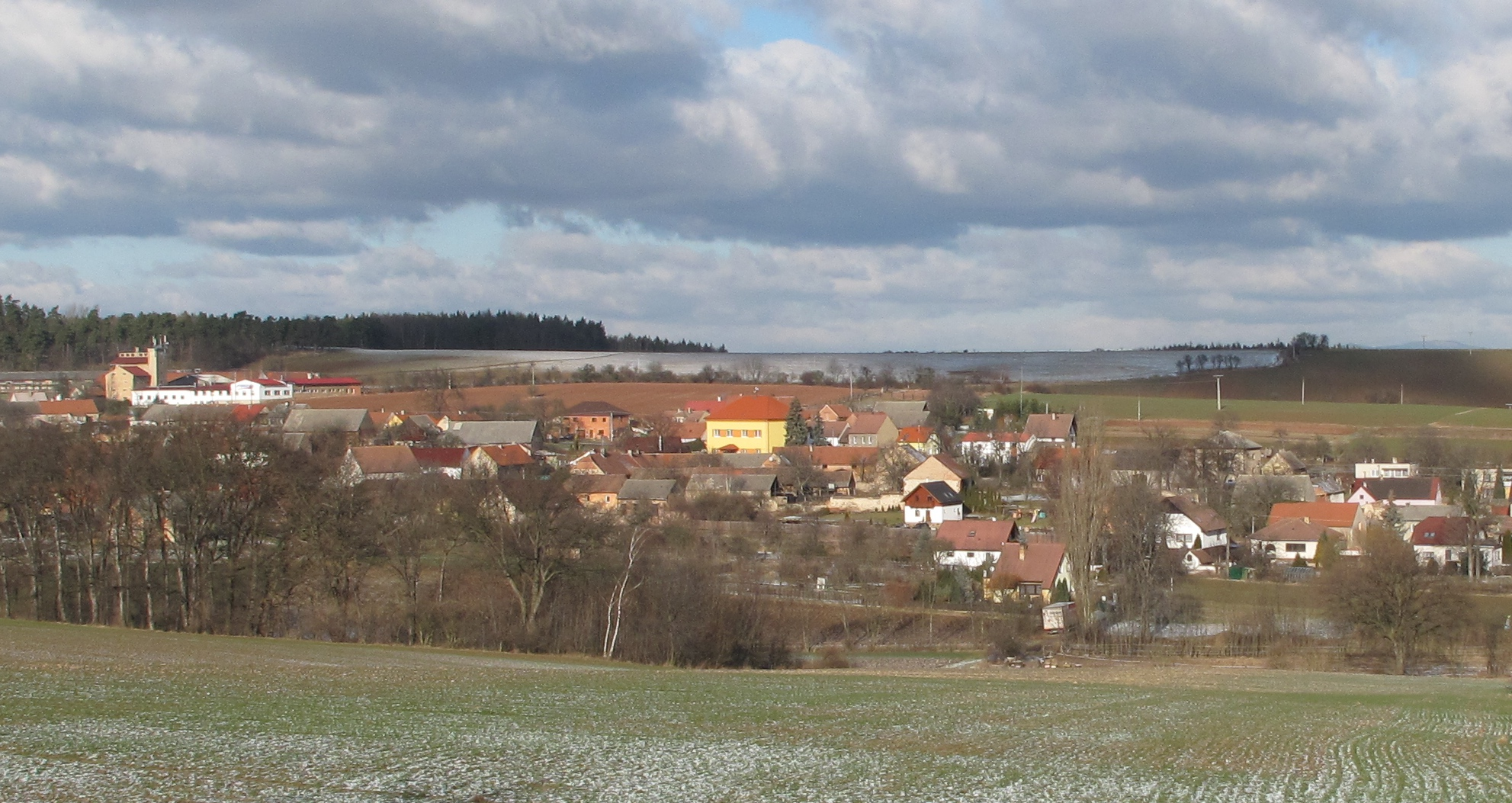 Jedomělice village as seen from the south, Kladno District, Czech Republic.